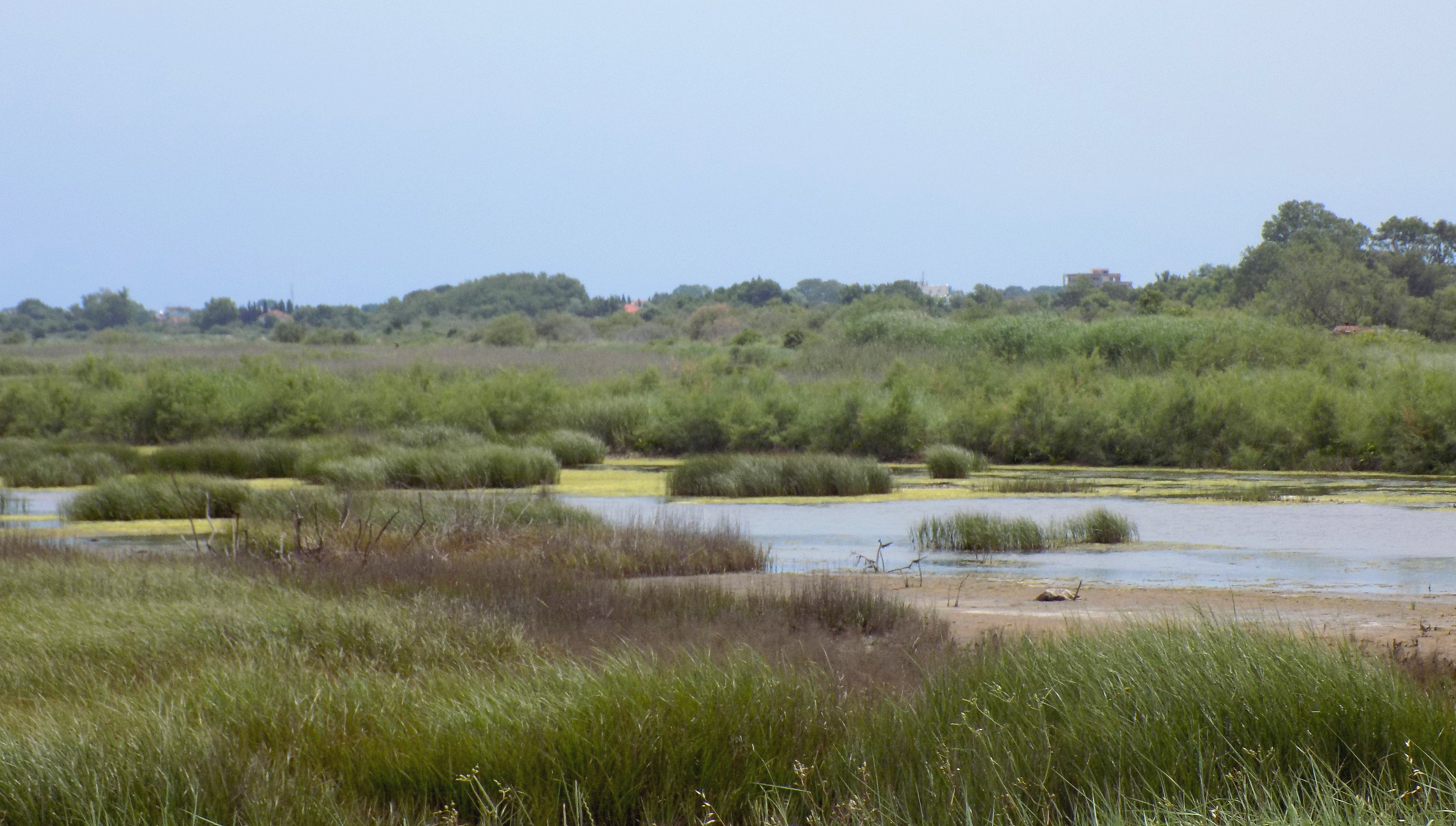 Ulcinj Salinas, important bird area